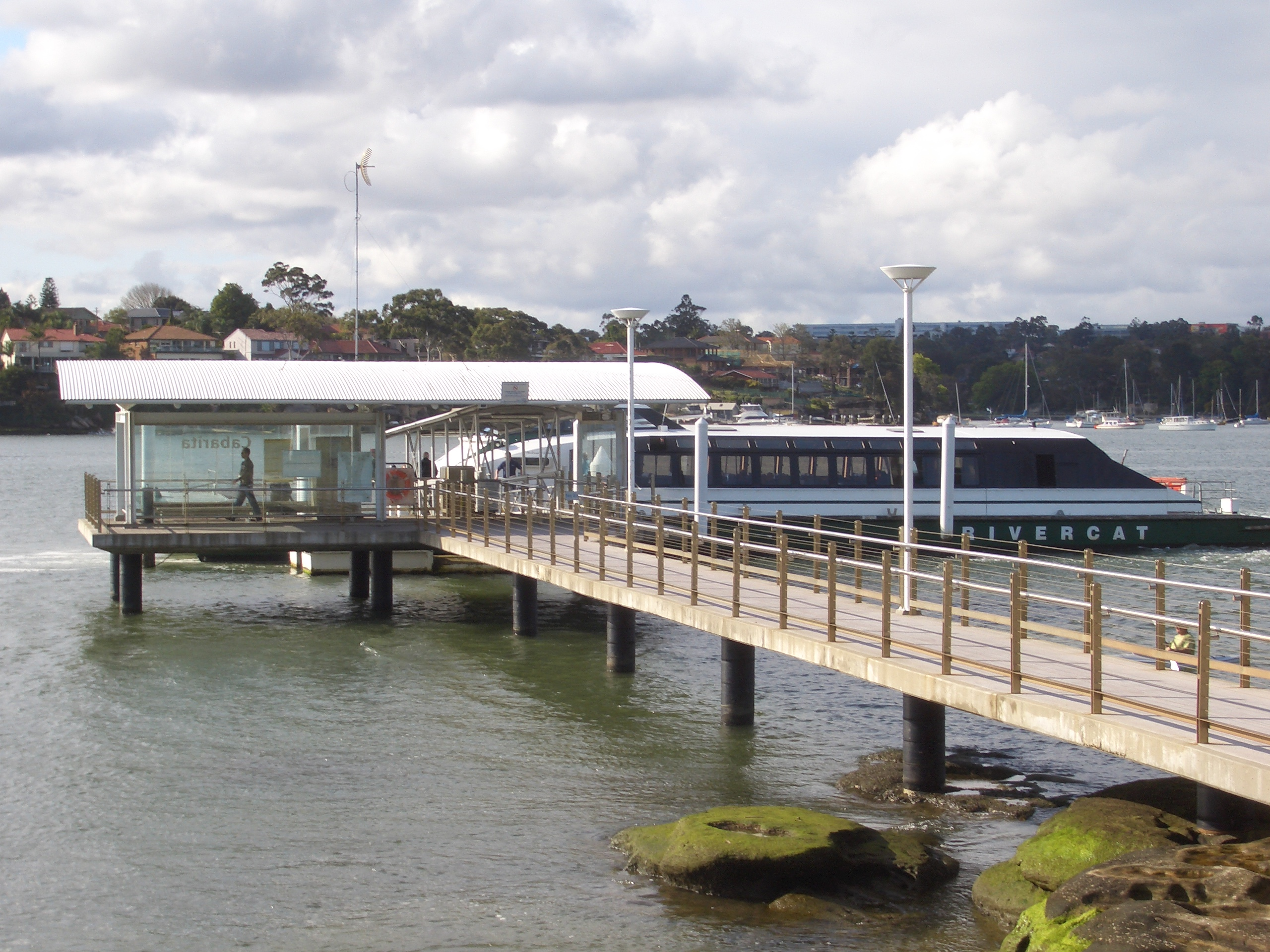 Cabarita wharf and Rivercat, Sydney